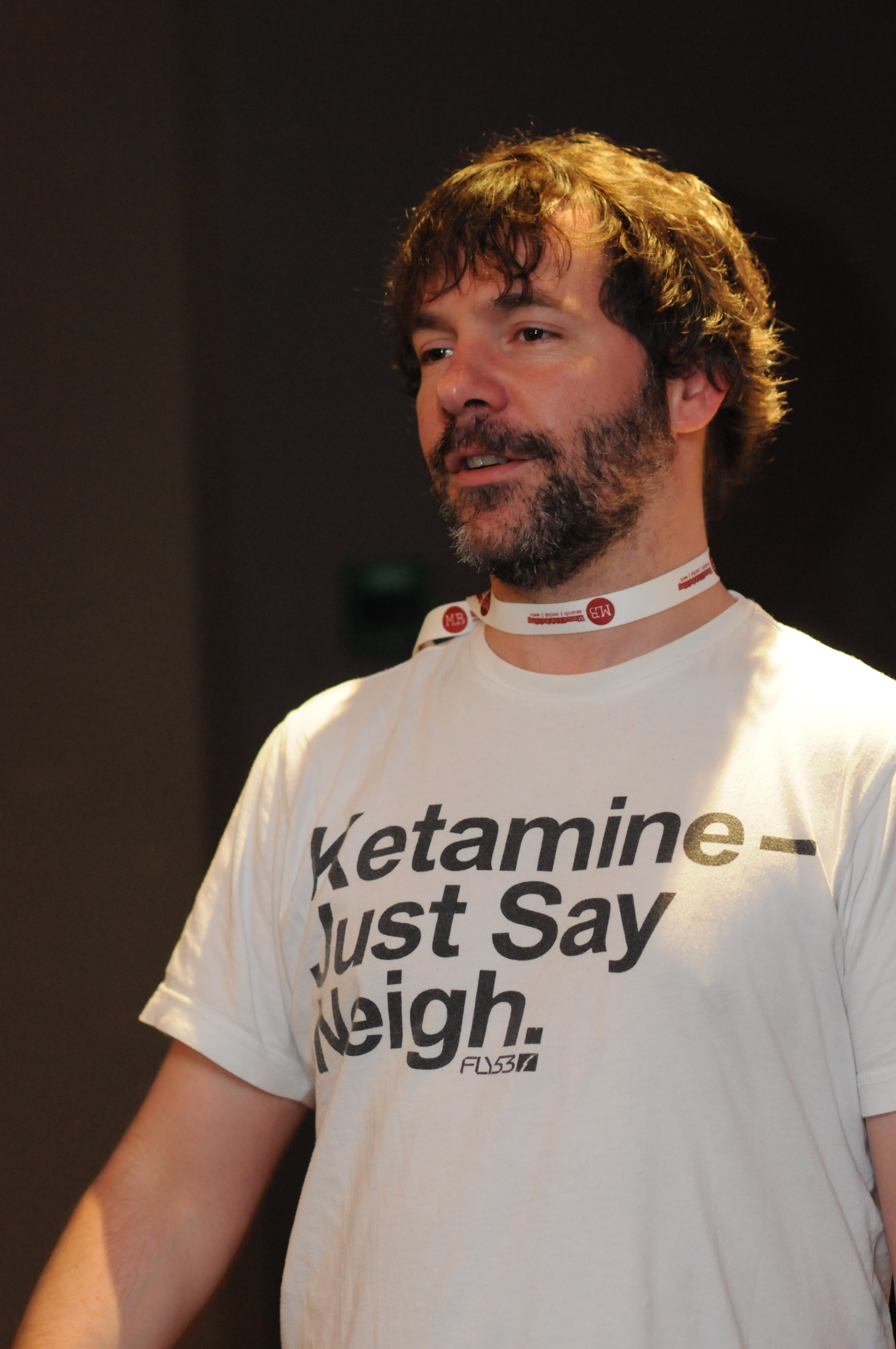 Just Say Neigh